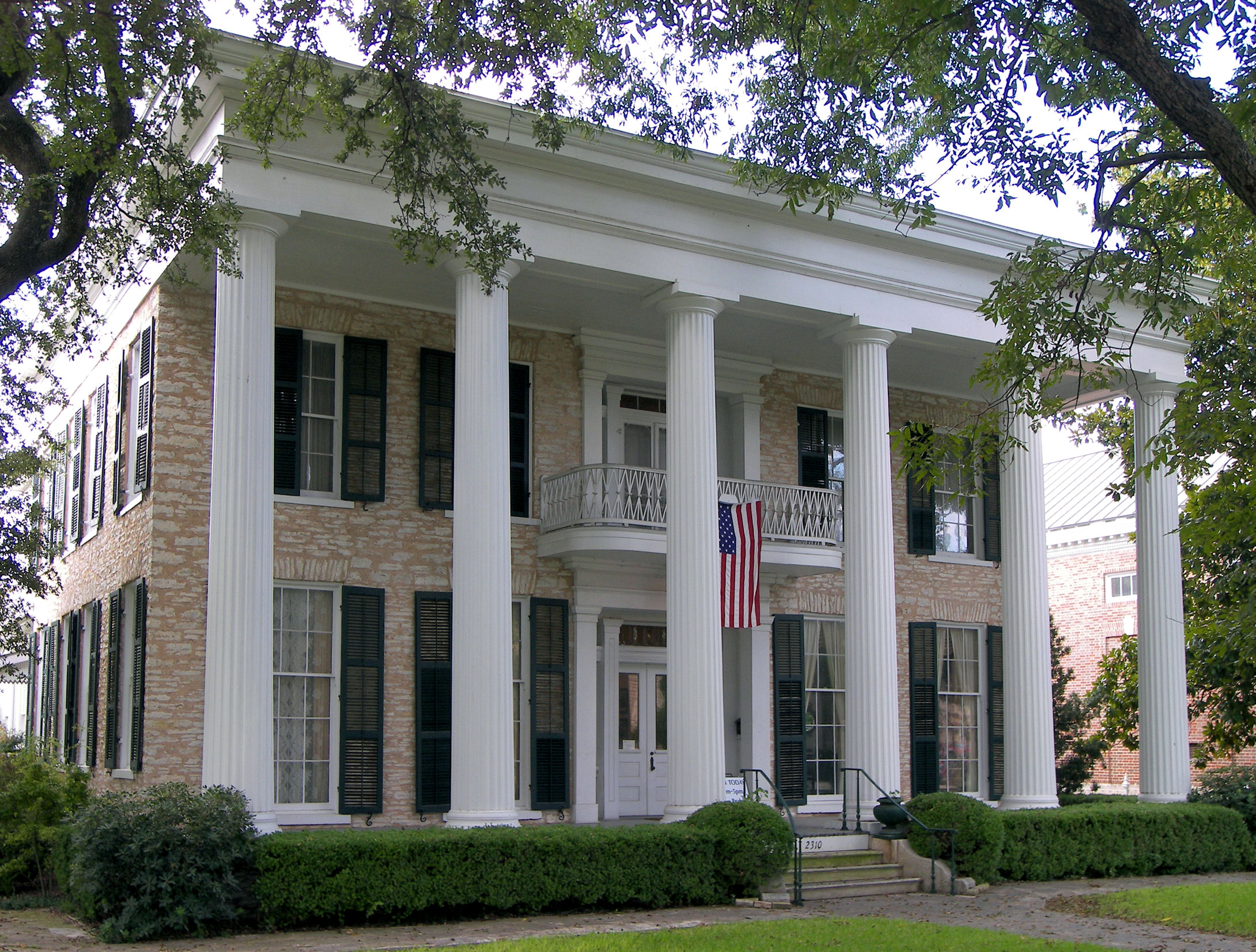 The Neill–Cochran House located near the University of Texas in Austin, Texas, United States. Abner Cook designed and built the house in 1855.